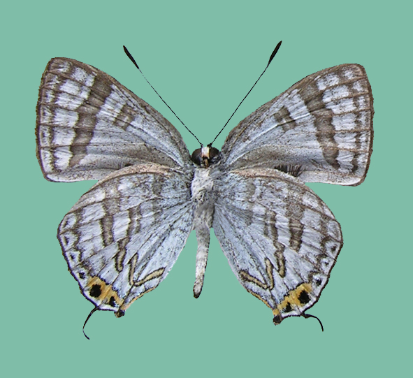 Sinthusa mindanensis, male, underside